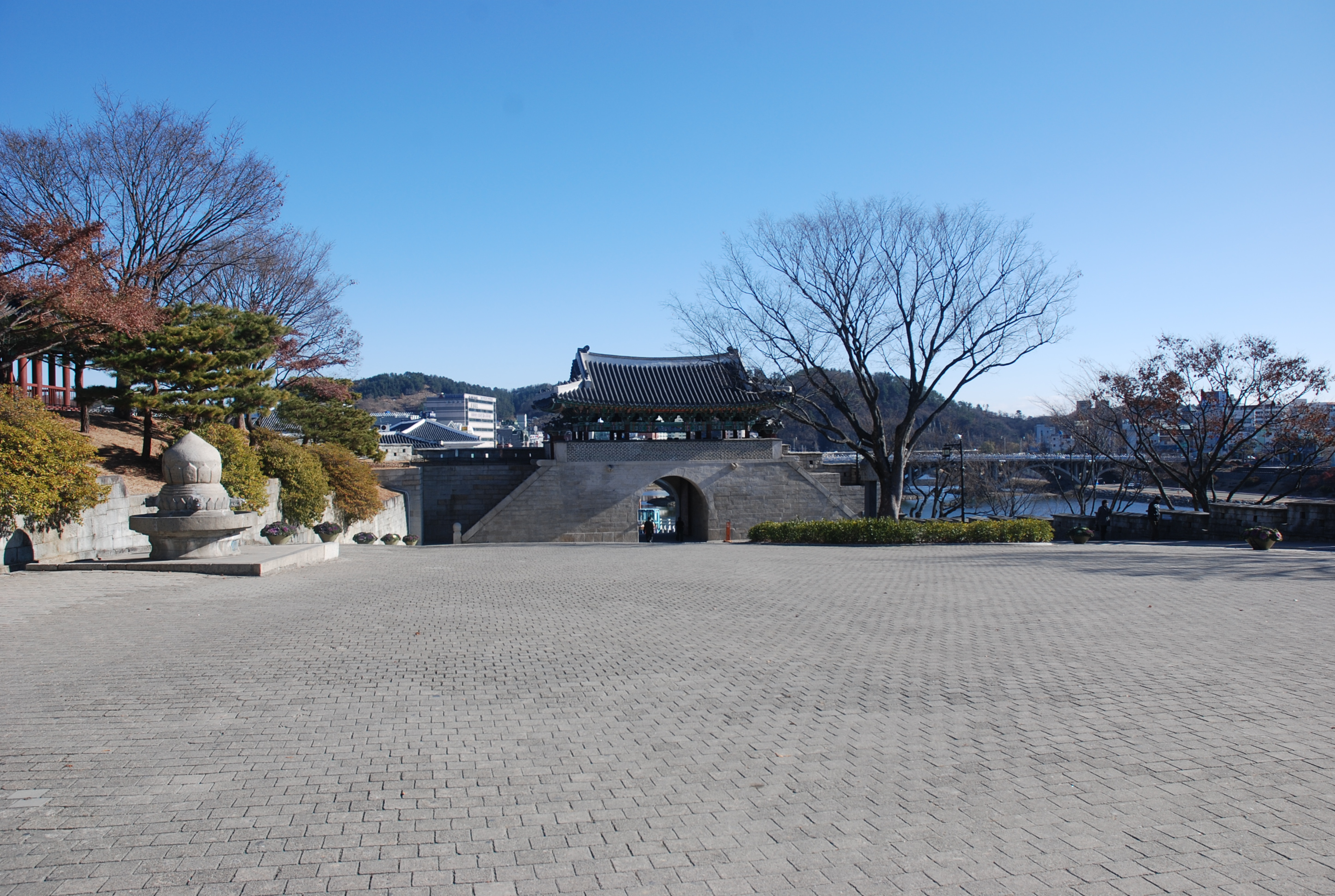 Jinju castle Chosuk gate view from inside. This is the front gate of the Jinju Castle.